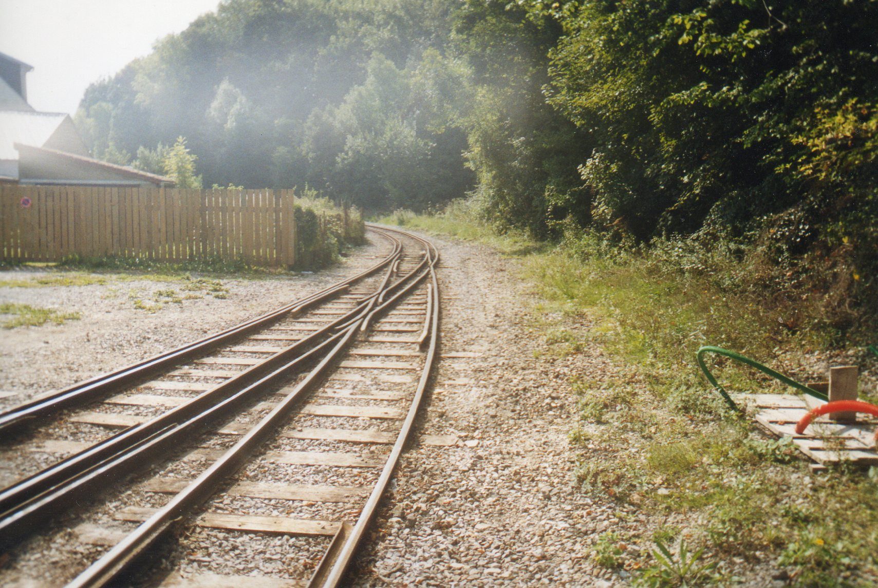 Track on the Chemin de Fer de la Baie de Somme at St Valery sur Somme. Note the metre gauge track laid within standard gauge track, with a metre gauge point shown.